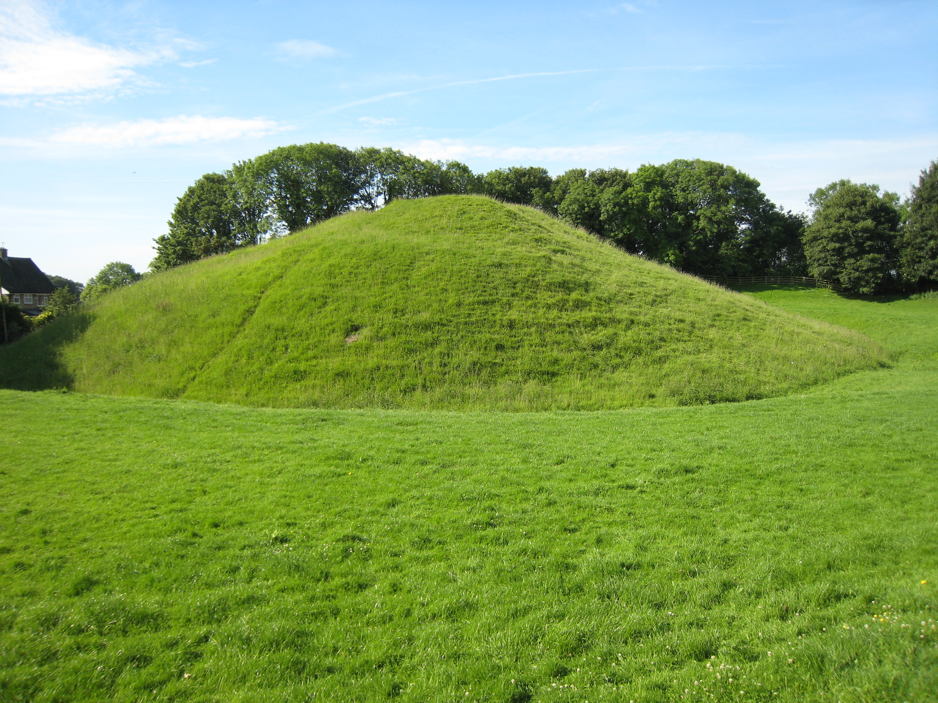 Hall Tower earthworks, Barwick-in-Elmet. Iron age hill fort mound with ditch, which was also used for a wooden Norman motte and bailey castle. Atlas of Hillforts 1597